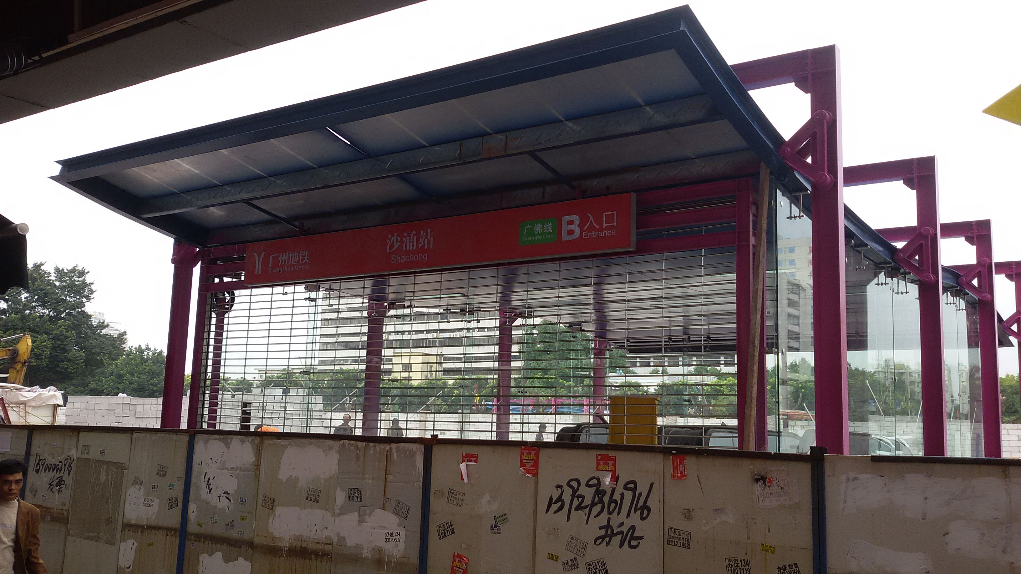 Exit B for Shachong Station in Foshan Metro (December 28th., 2015).